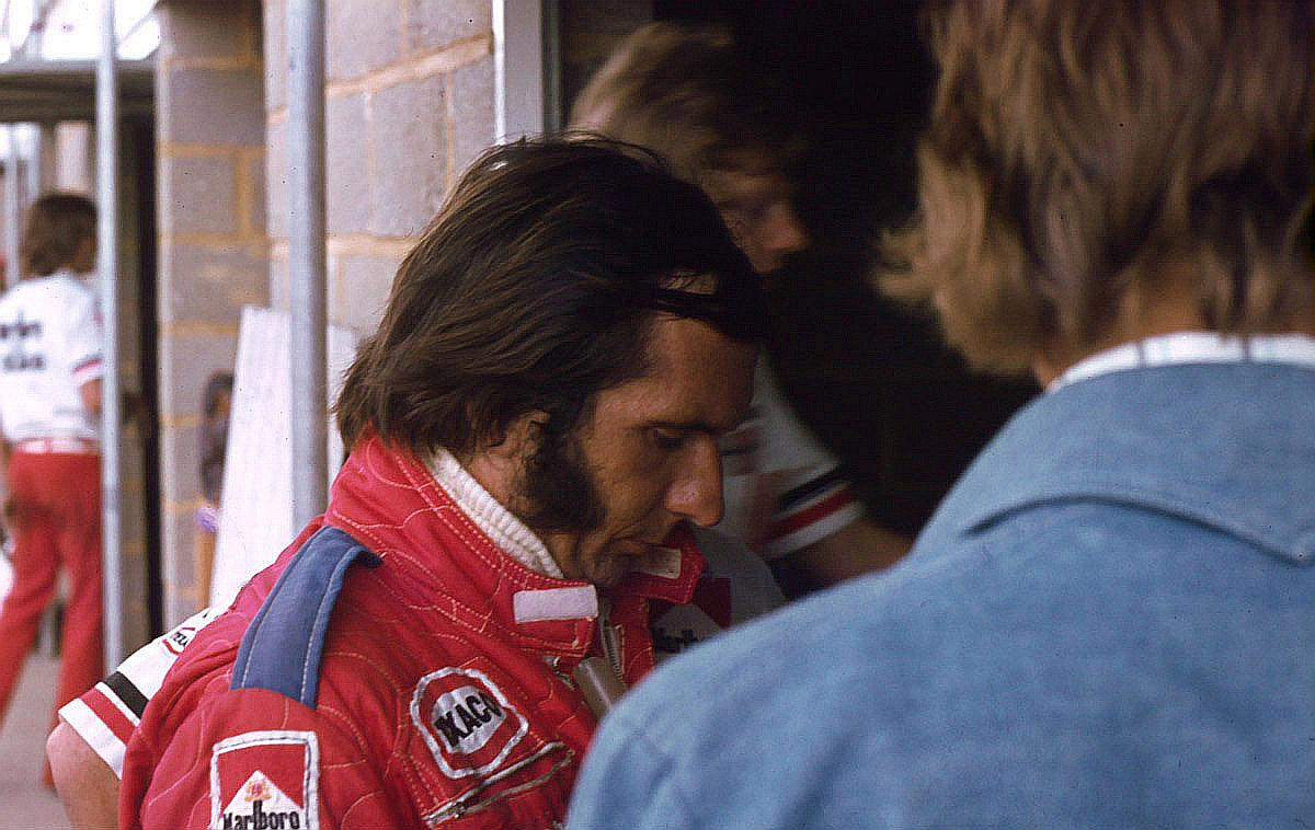 Emerson Fittipaldi entering pit garage Silverstone GP74